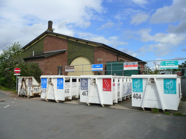 Ross Recycling Centre Part of the superb facility showing the back of a preserved engine shed on land that was previously railway sidings.